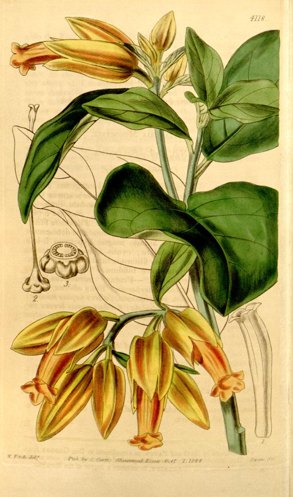 Illustration of Juanulloa parasitica